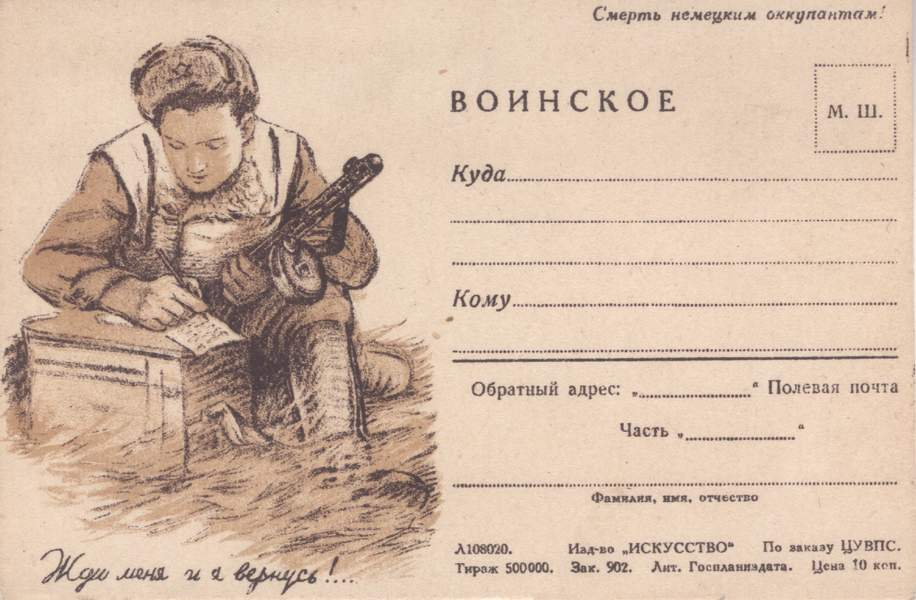 USSR blank one-side illustrated postcard of military field post, 1944.